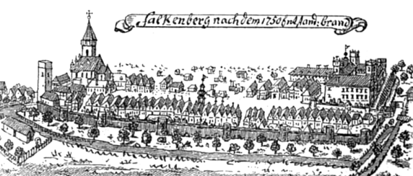 The upper silesian town Niemodlin after the big fire of 1750.